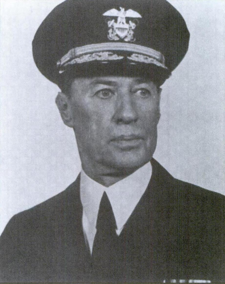 Origins of the Navy Judge Advocate General's Corps: a history of legal administration in the United States Navy, 1775 to 1967